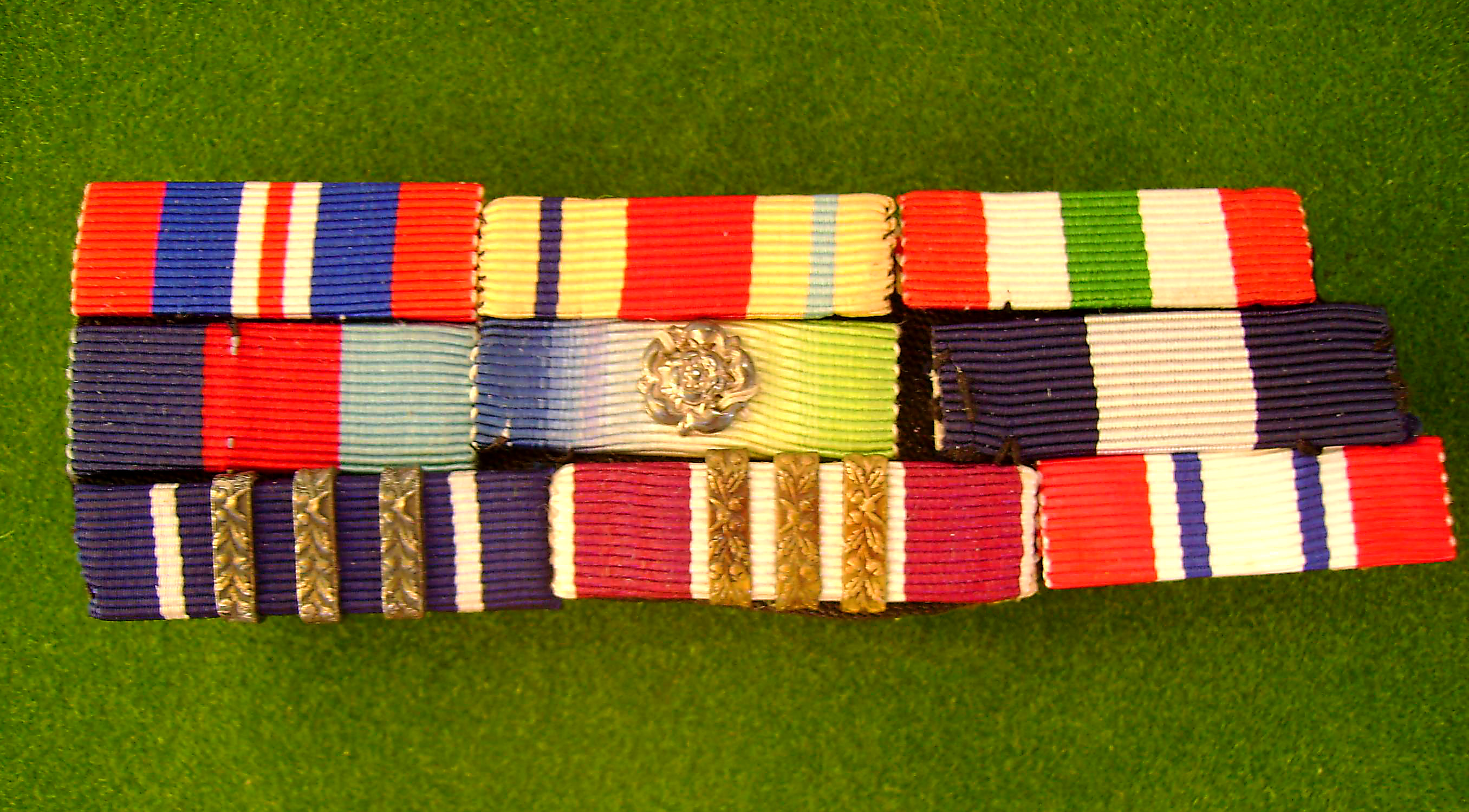 hess2